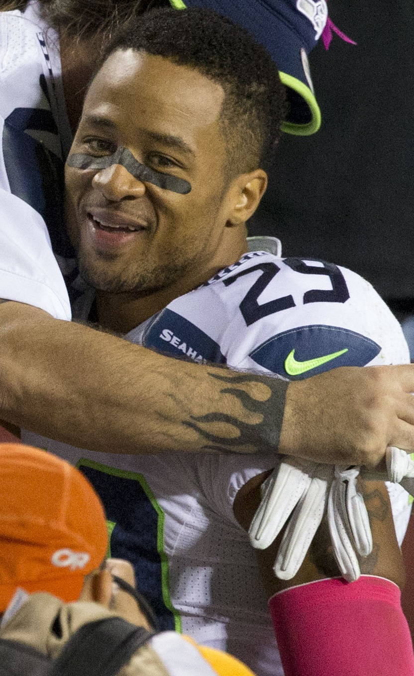 Seahawks at Redskins 10/6/14